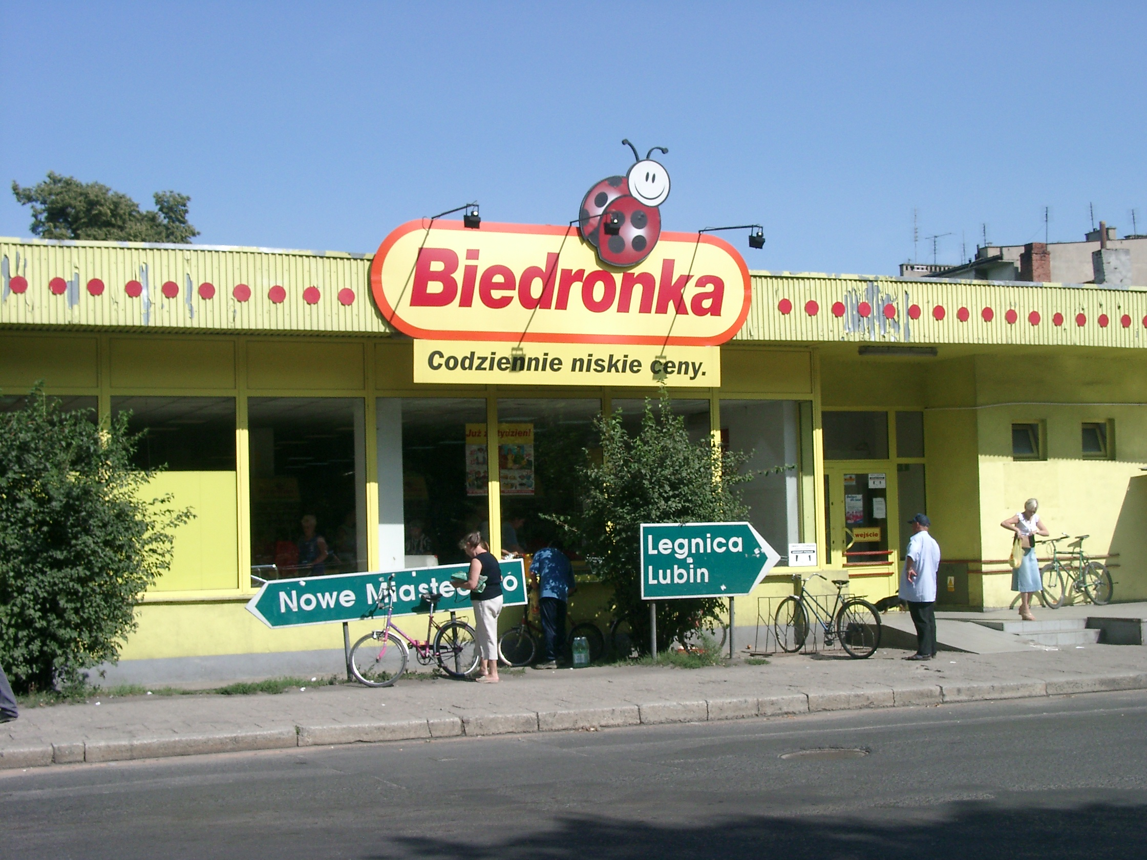 "Biedronka" discount shop in Chojnów (Poland).